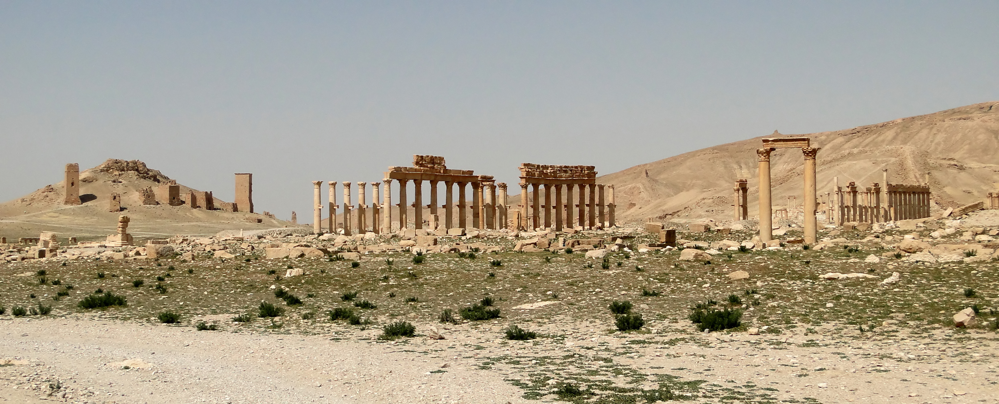 Diocletian's camp in Palmyra, Syria